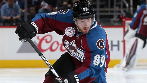 Bodker playing for the Colorado Avalanche in 2016